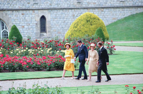 The Reagans with the British Royals at Windsor Castle, 1982